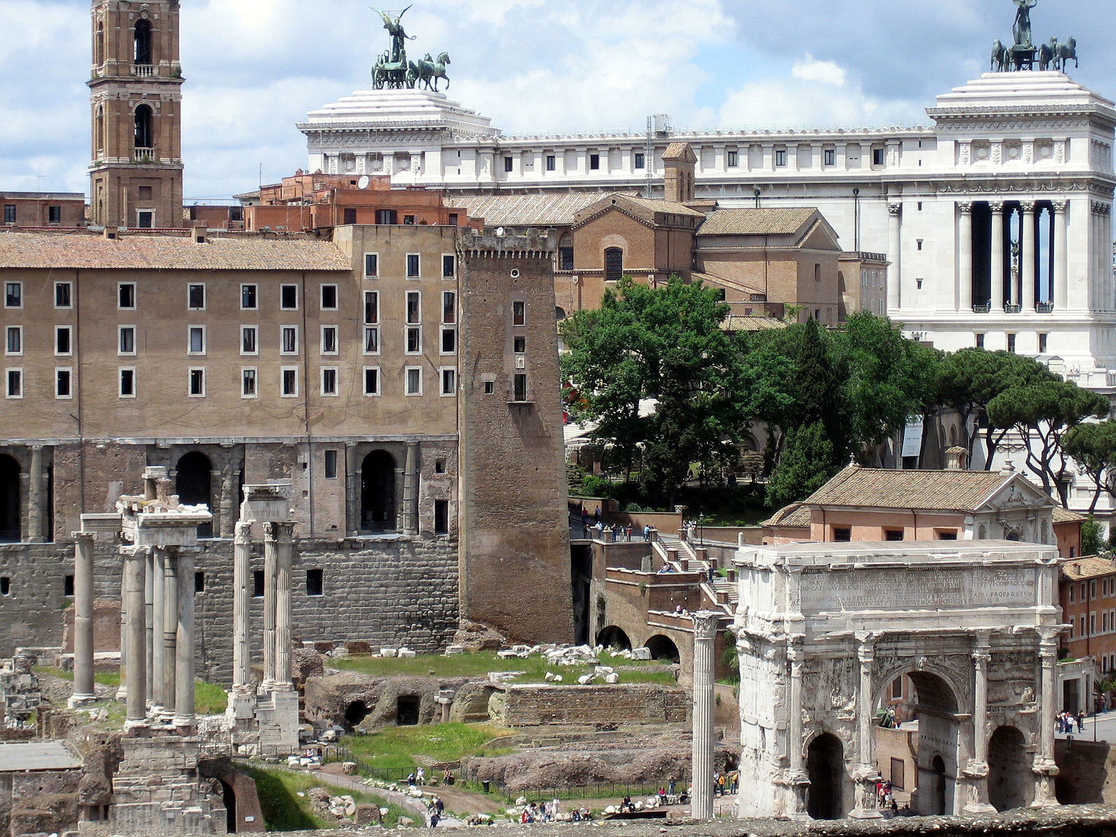 Right to left: the arch of Septimius Severus, with the National Monument to Vittorio Emanuele II behind; the back of the church of S. Maria in Aracoeli behind the trees; the tower of Martin V and the back of the palazzo Senatorio, Rome's city hall, and in the foreground the columns of the temples of Vespasian and, to the right, Saturn.